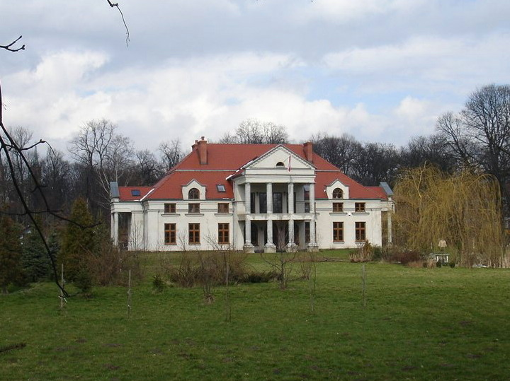 I think the previous comment that this is the Potocki palace in Krzeszowice designed by Karl Friedrich Schinkel was wrong. I suppose this is only a house, very new house in Krzeszowice, big and elegant but not palace :) Potocki palace in Krzeszowice looks quite different.